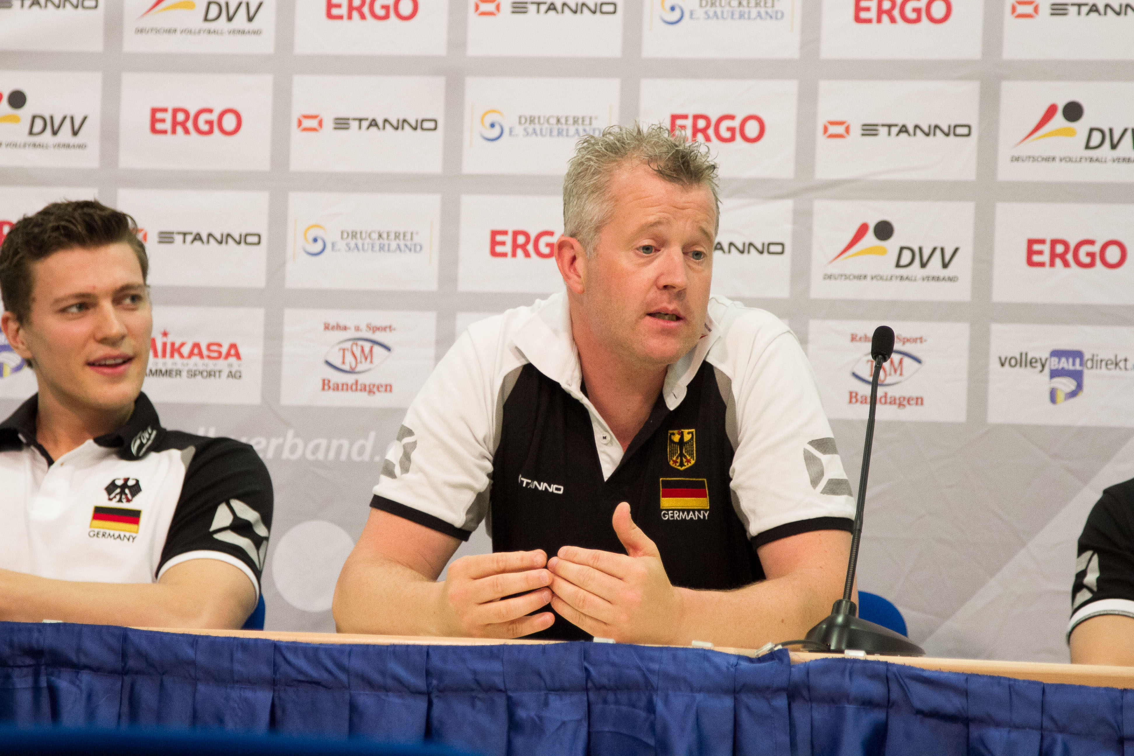 Vital Heynen at the press conference of World League 2014 in Stuttgart, Germany.